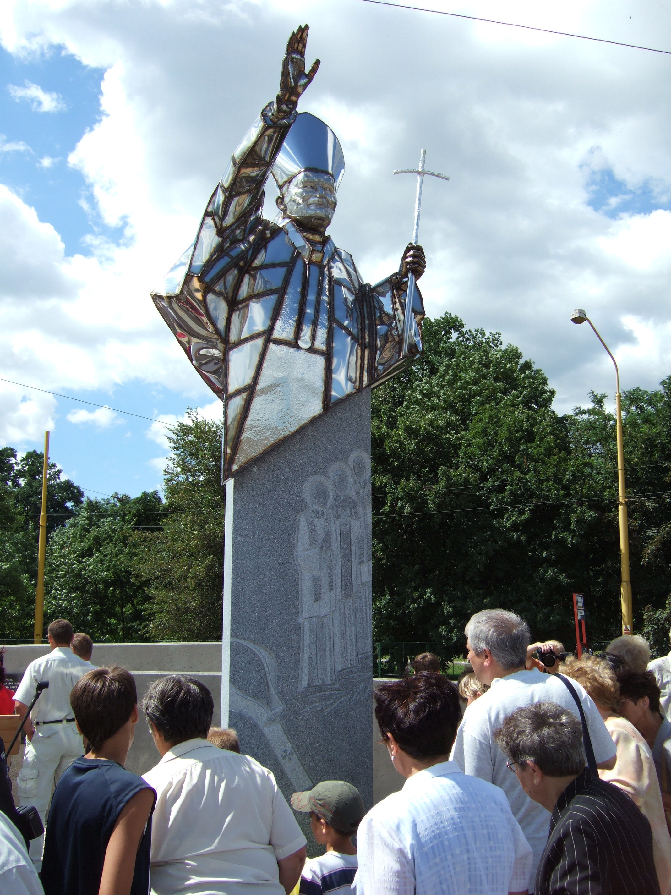 John Paul II‘s statue in Košice, Slovakia - the statue was unveiled on July 15, 2006 by cardinal Stanislav Dziwisz, a former private secretary of pope John Paul II